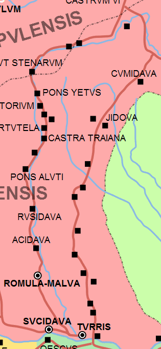 Limes Alutanus and Limes Translautanus